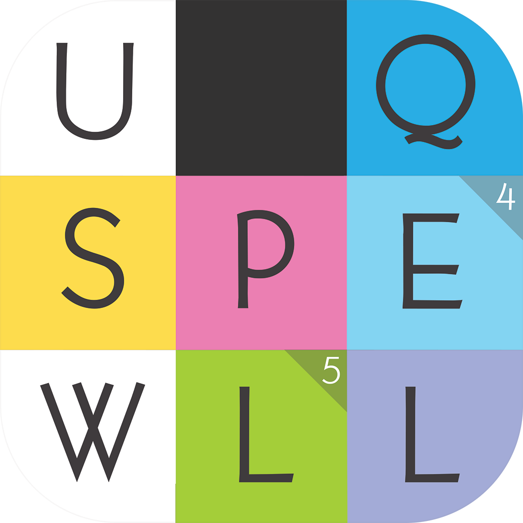 Indie puzzle game SpellTower's app icon